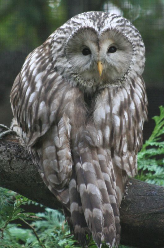 Taken at Kirkleatham Owl Sanctuary near Middlesbrough.